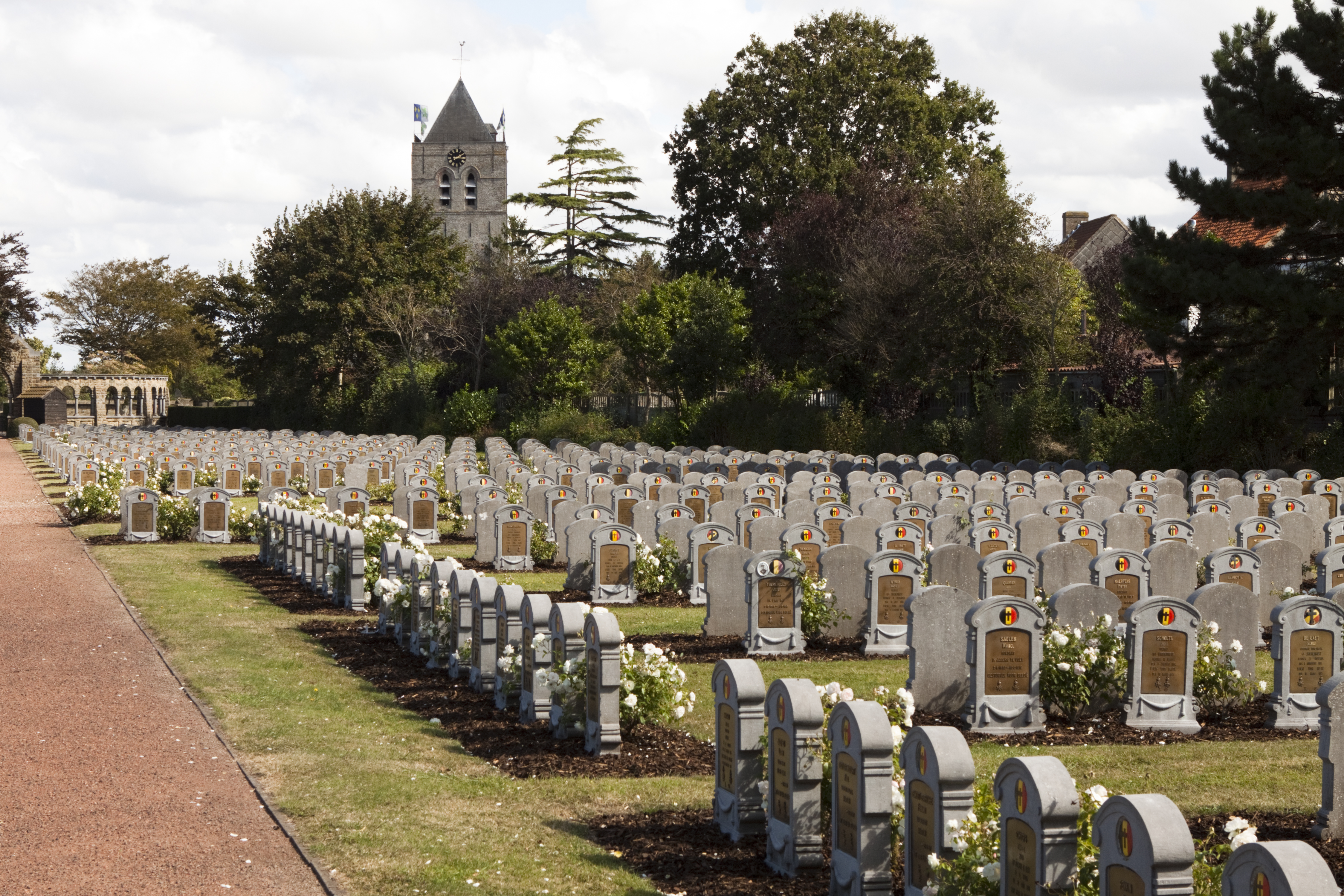 Adinkerke Churchyard Extension. Belgian graves